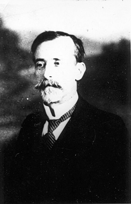 Bulgarian политик Yanko Sakazov